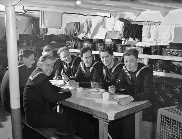 Crewmen of HMCS Agassiz : mealtime.